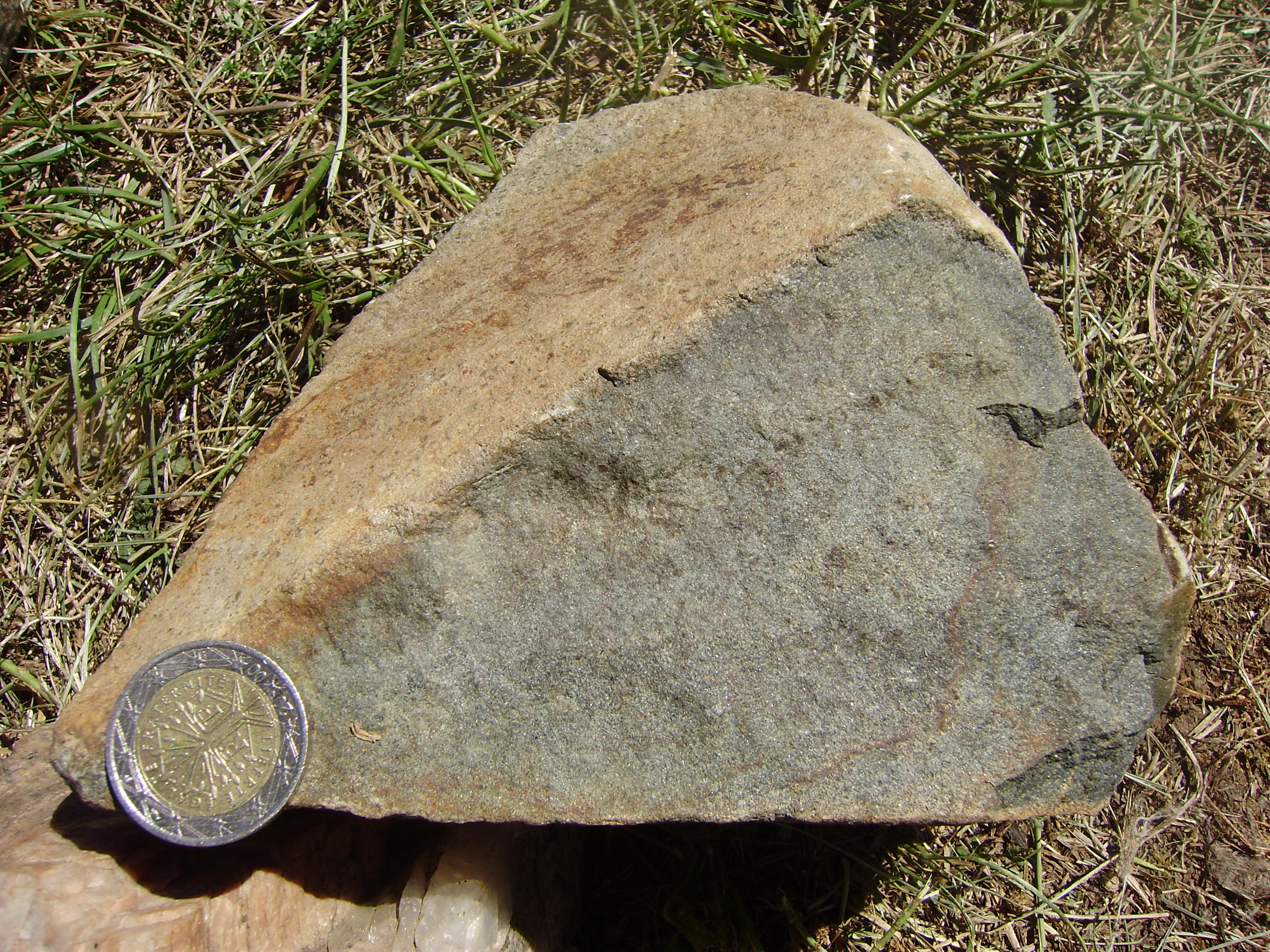 Lamrophyre from the Piégut-Pluviers granodiorite, northwestern Massif Central, France.